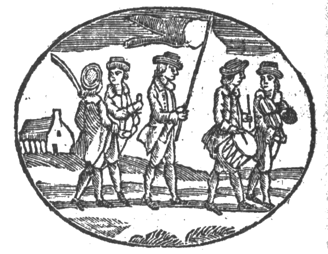 Image from A Little Pretty Pocket-book